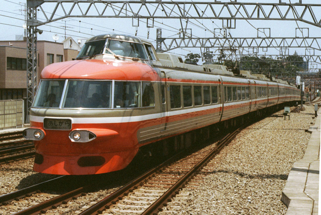 Odakyu 3100 series NSE EMU at Kitamo Station on the Odakyu Odawara Line